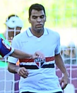 2012-09-02_Campeonato Brasileiro 2012_Série A_Bahia 1 x 0 São Paulo_Estádio Roberto Santos_PItuaçu